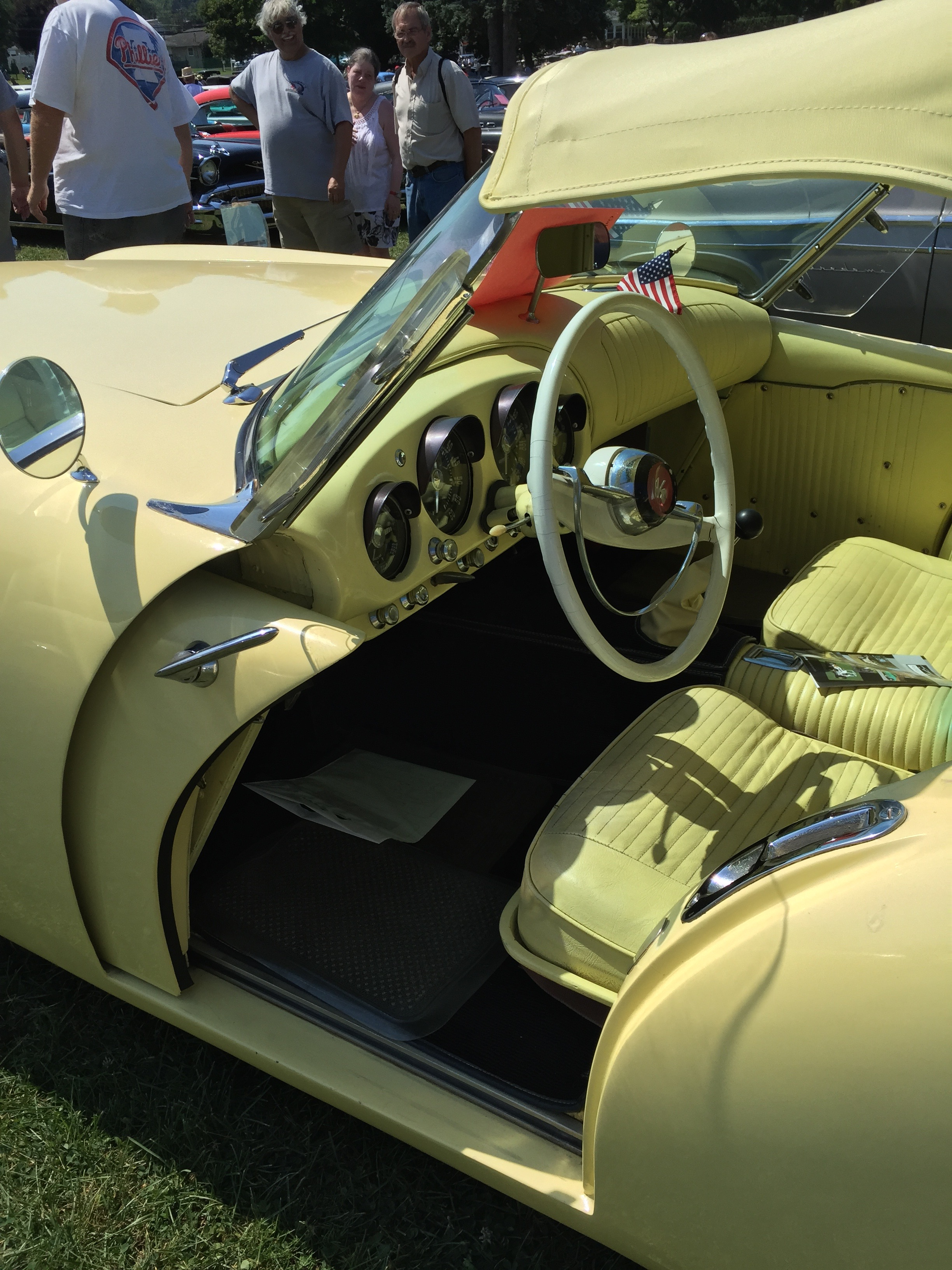 1954 Kaiser Darrin roadster finished in yellow. Picture taken at the 52nd Annual "Das Awkscht Fescht" antique car show in Macungie, Pennsylvania - August 2015.